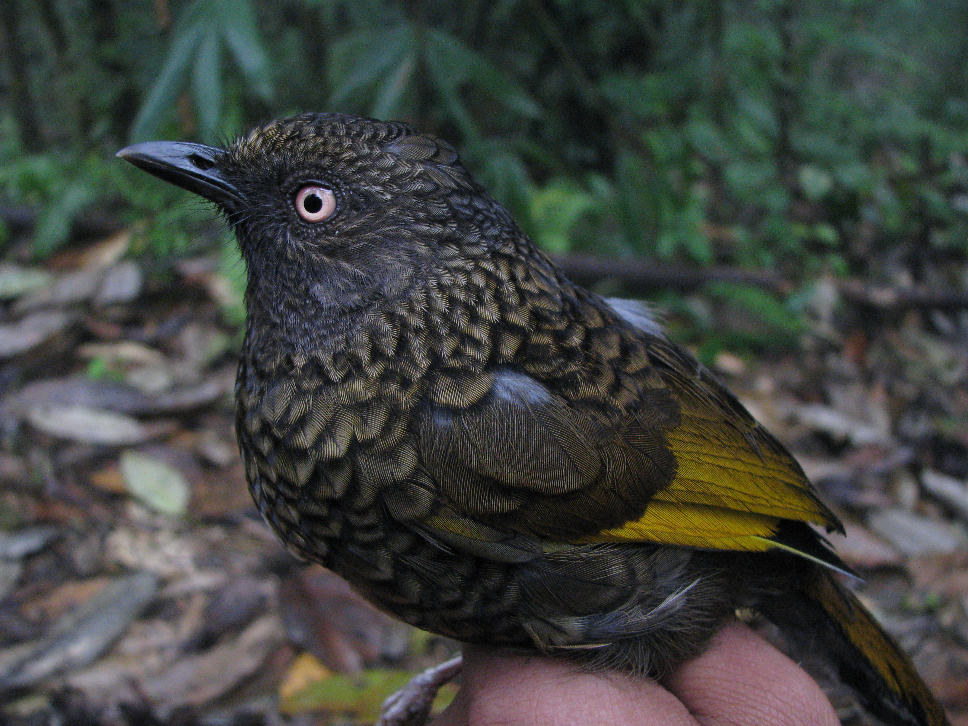 A Scaly Laughingthrush. This bird was captured and ringed at Eaglenest Wildlife Sanctuary, Arunachal Pradesh, India.